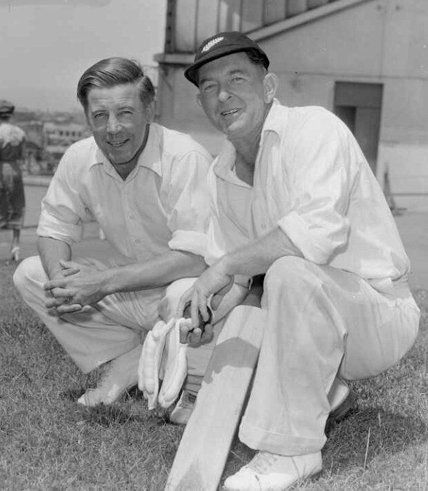 The cricketers M P Donnelly and W M Wallace